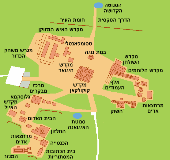 karta Chichen Itza